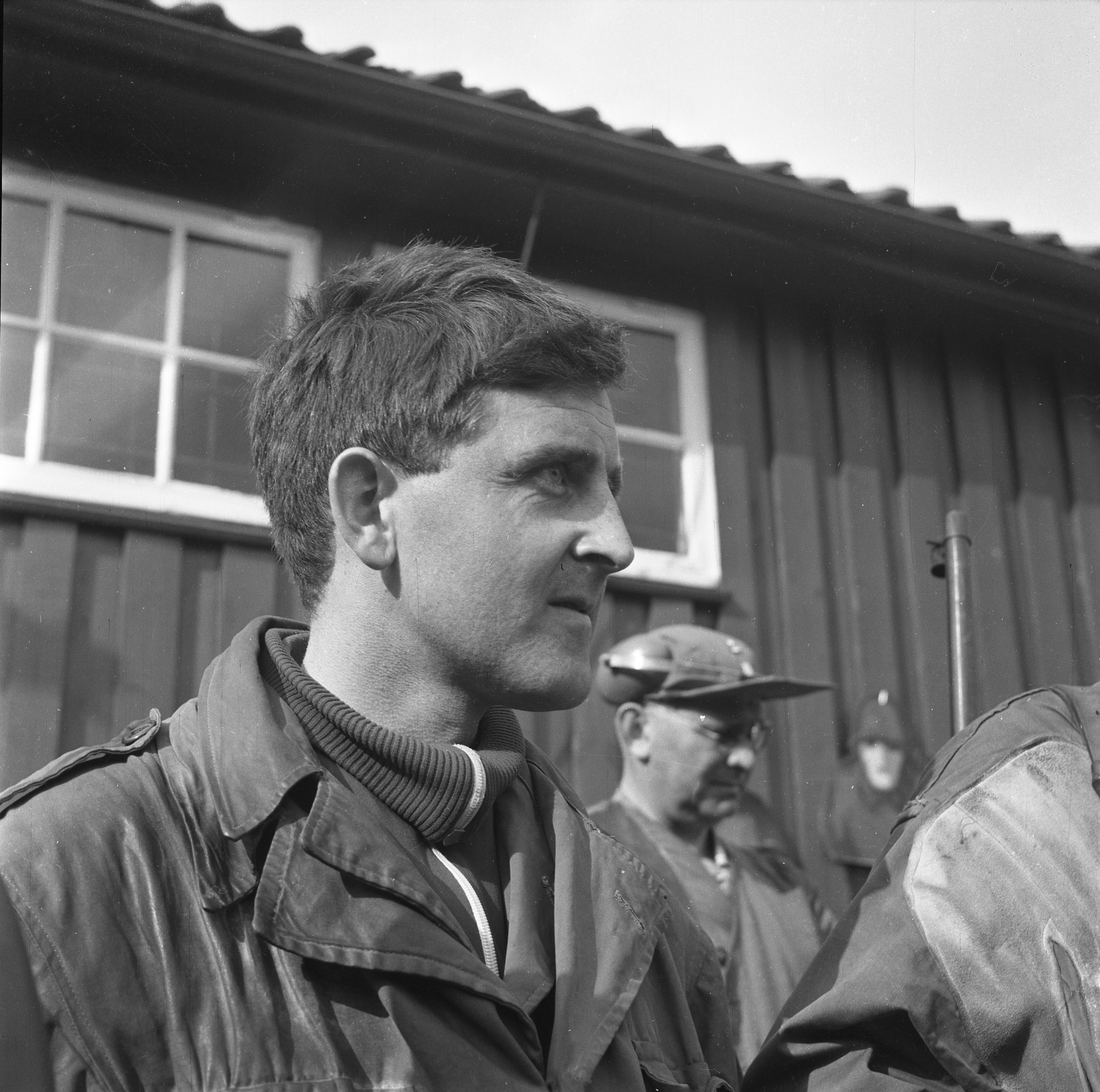 Format: Negativ 120 film Dato / Date: 1967 Fotograf / Photographer: Eirik Sundvor (1902 - 1992) Sted / Place: Landsskytterstevnet i Ulven ved Bergen, Hordaland Wikipedia: Magne Landrø (f. 1938) Eier / Owner Institution: Trondheim byarkiv, The Municipal Archives of Trondheim Arkivreferanse / Archive reference: Tor.H43.Bxx.F16143